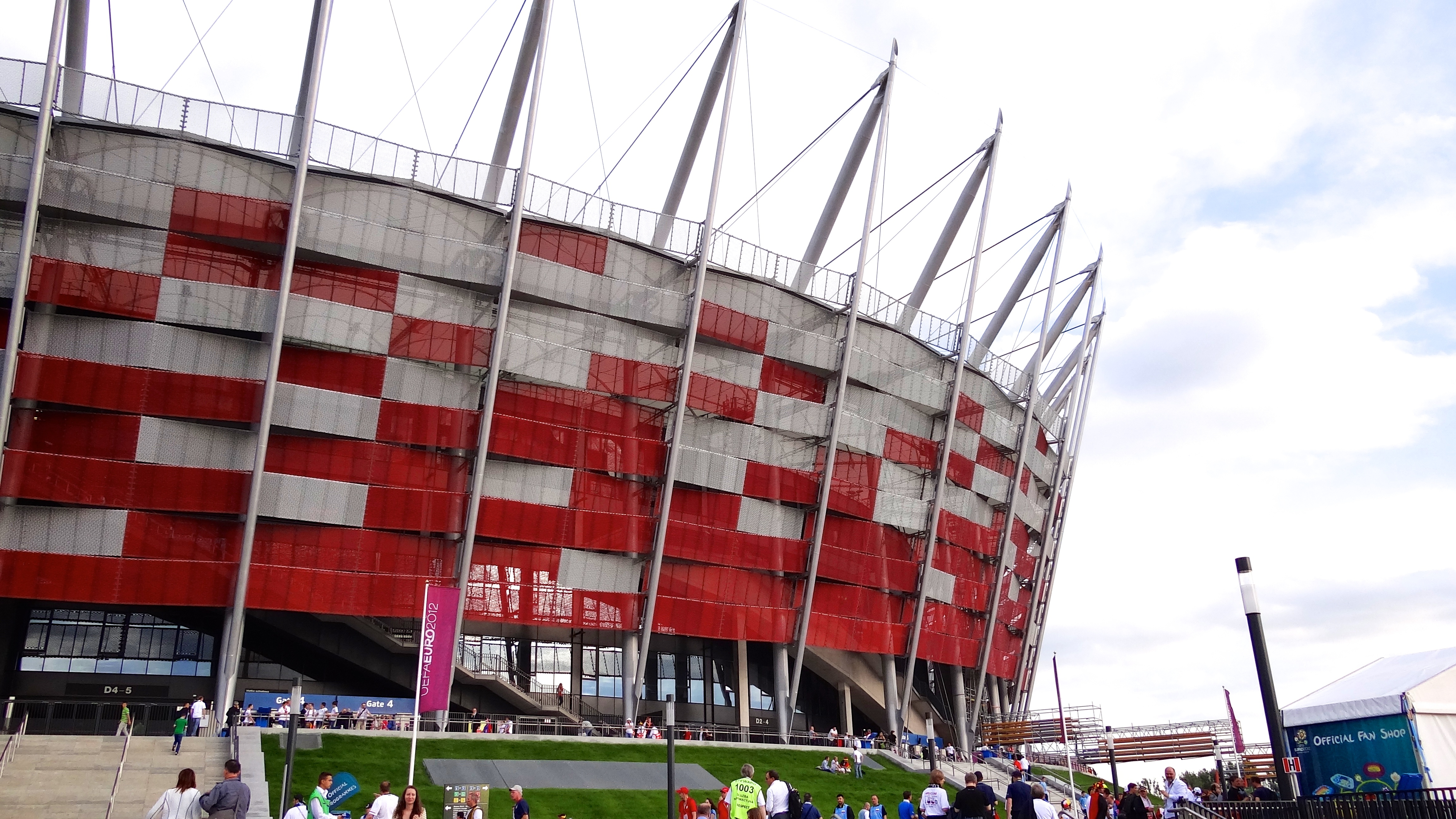 Warsaw National Stadium before Germany - Italy, UEFA EURO 2012.